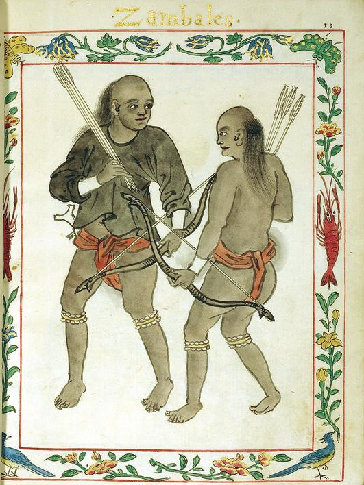 Natives of Zambales